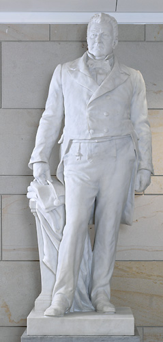 Statue of John Middleton Clayton